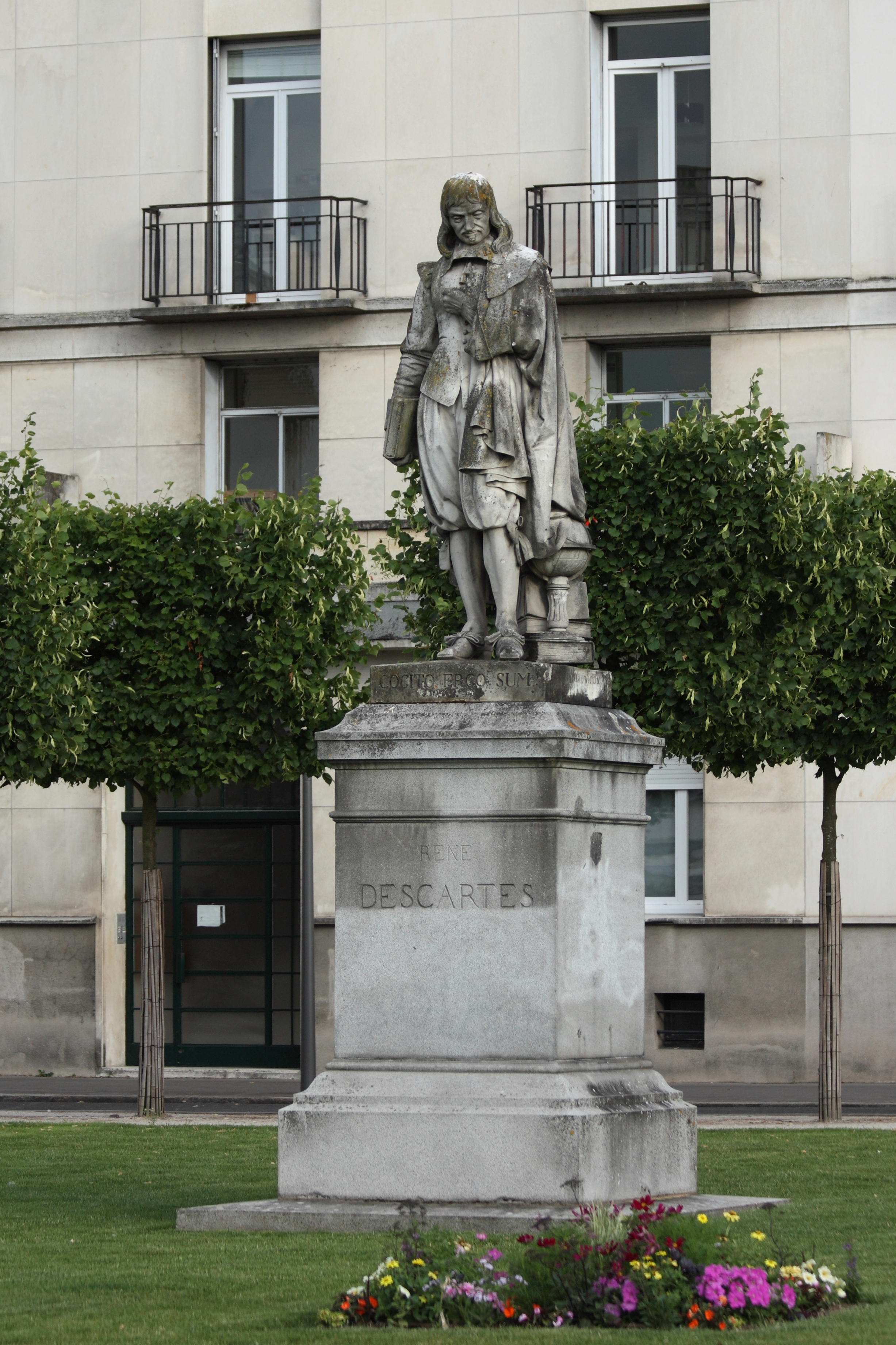 Statue of René Descartes in Tours. On the pedestal one can read the famous latin sentence COGITO ERGO SUM (I think, therefore I am). Made in 1848 by Alfred Emile O'Hara, count of Nieuwerkerke, installed in Tours (place Anatole France) in 1852. It is the marble copy of a bronze statue made in 1846 for the city of The Hague. Reference in the Inventaire général du patrimoine culturel: IM37000457.